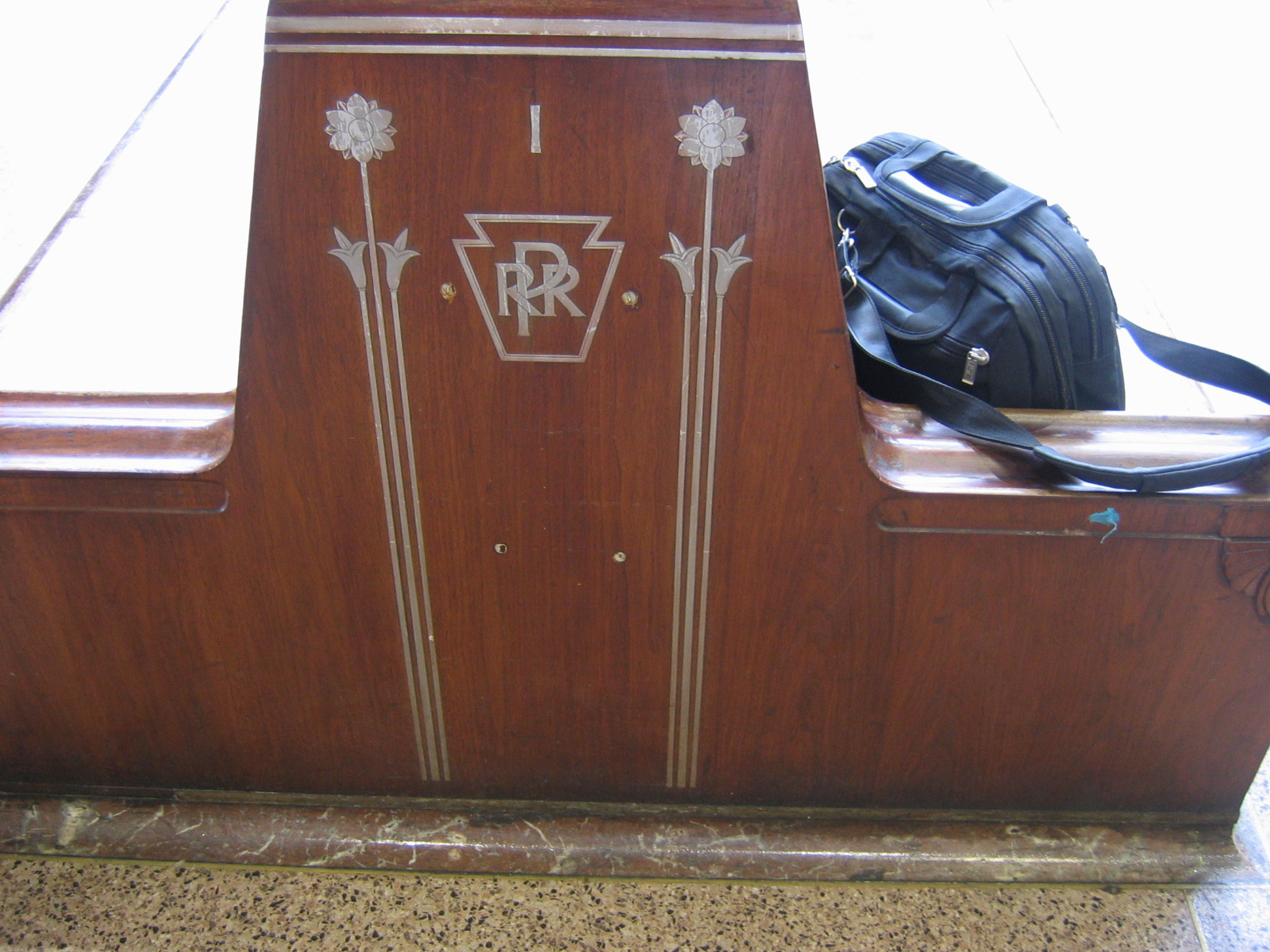 User:Rickyrab took this picture of a Pennsylvania Railroad logo on the side of a waiting-room bench at Penn Station in Newark in 2005. Please use in accordance with the terms at the bottom of Rickyrab's user page. The Keystone with the "P" and interlocked "R"s inside it is a copyrighted and/or trademarked logo, and the photo includes that symbol (as a major element in the bench decoration). "Copyright does not protect names, titles, slogans, or short phrases. In some cases, these things may be protected as trademarks. ... However, copyright protection may be available for logo artwork that contains sufficient authorship. In some circumstances, an artistic logo may also be protected as a trademark." Excerpt from Use of such images on Wikipedia arguably meets Fair Use requirements.